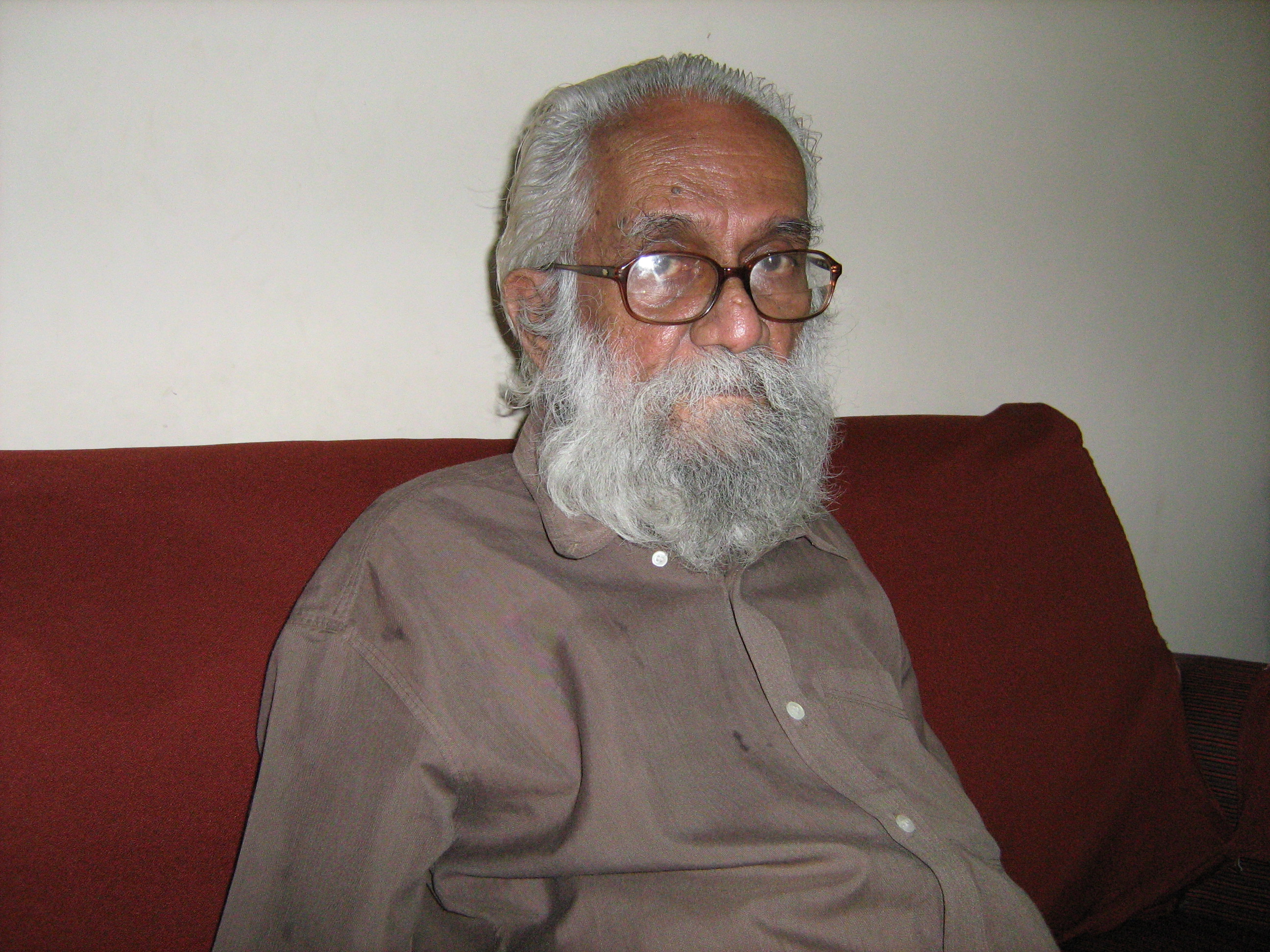 Portrait photograph [of Basava Premanand] taken by me (MANOJTV) on 12 May 2007 at Bangalore at the residence of Premanand's sister.